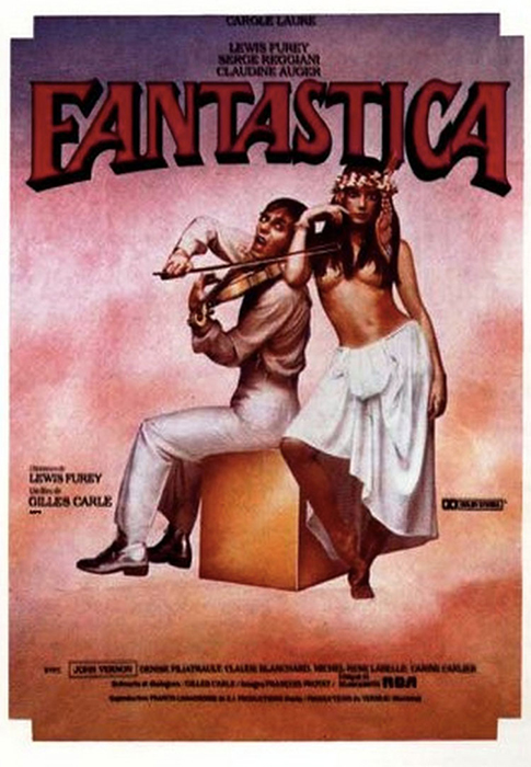 Poster of the movie Fantastica (Q3066593)